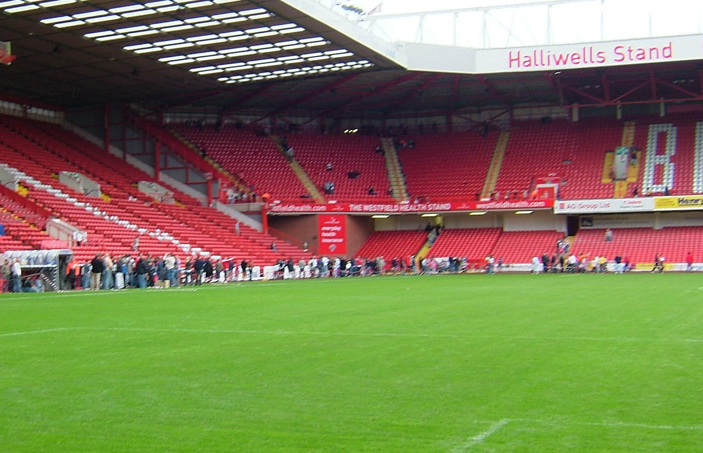 author:Lewis Skinner source:self made